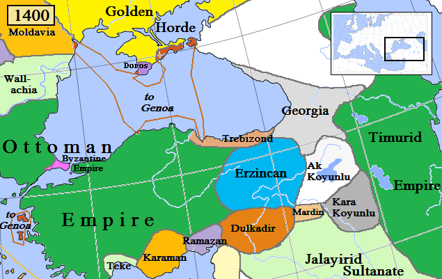 Trebizond and surrounding states in Anatolia/Caucasus in AD 1400. (Partially based on Euratlas map of Europe, 1400, improved since Koza Yayınları Tarih Atlası sf.42; Kanaat Yayınları Tarih Atlası sf.28; Mutafian, Claude & Van Lauwe, Eric: Atlas historique de l'Arménie, Autrement publ., coll. «Atlas/Memoires», Paris 2001, ISBN 2-7467-0100-6 and since the graphic style of [1])